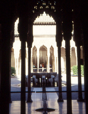 Patio de los Leones, Alhambra in Granada, Spain